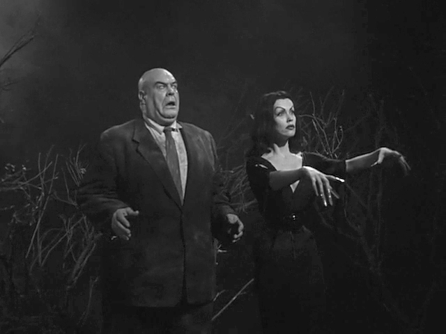 Screen capture from Plan 9 from Outer Space (1959) showing Tor Johnson and Vampira (Maila Nurmi)